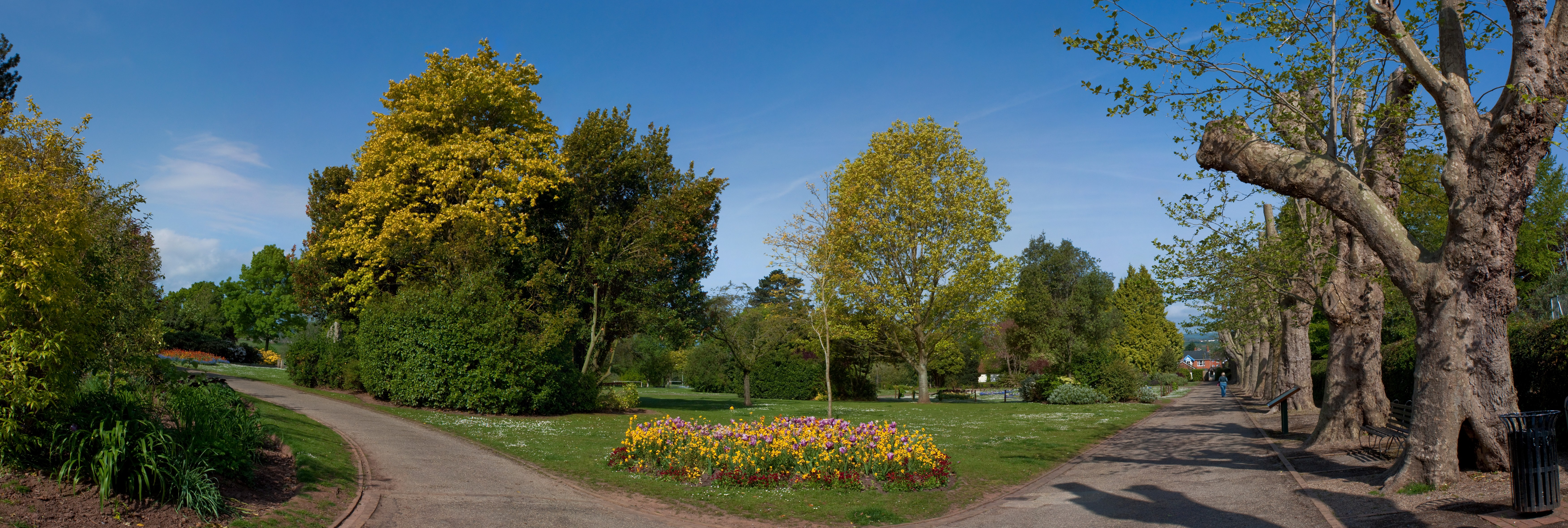 Entrance to the park in Wellington, Somerset. Stitched from 11 separate images. Re-processed from RAW.